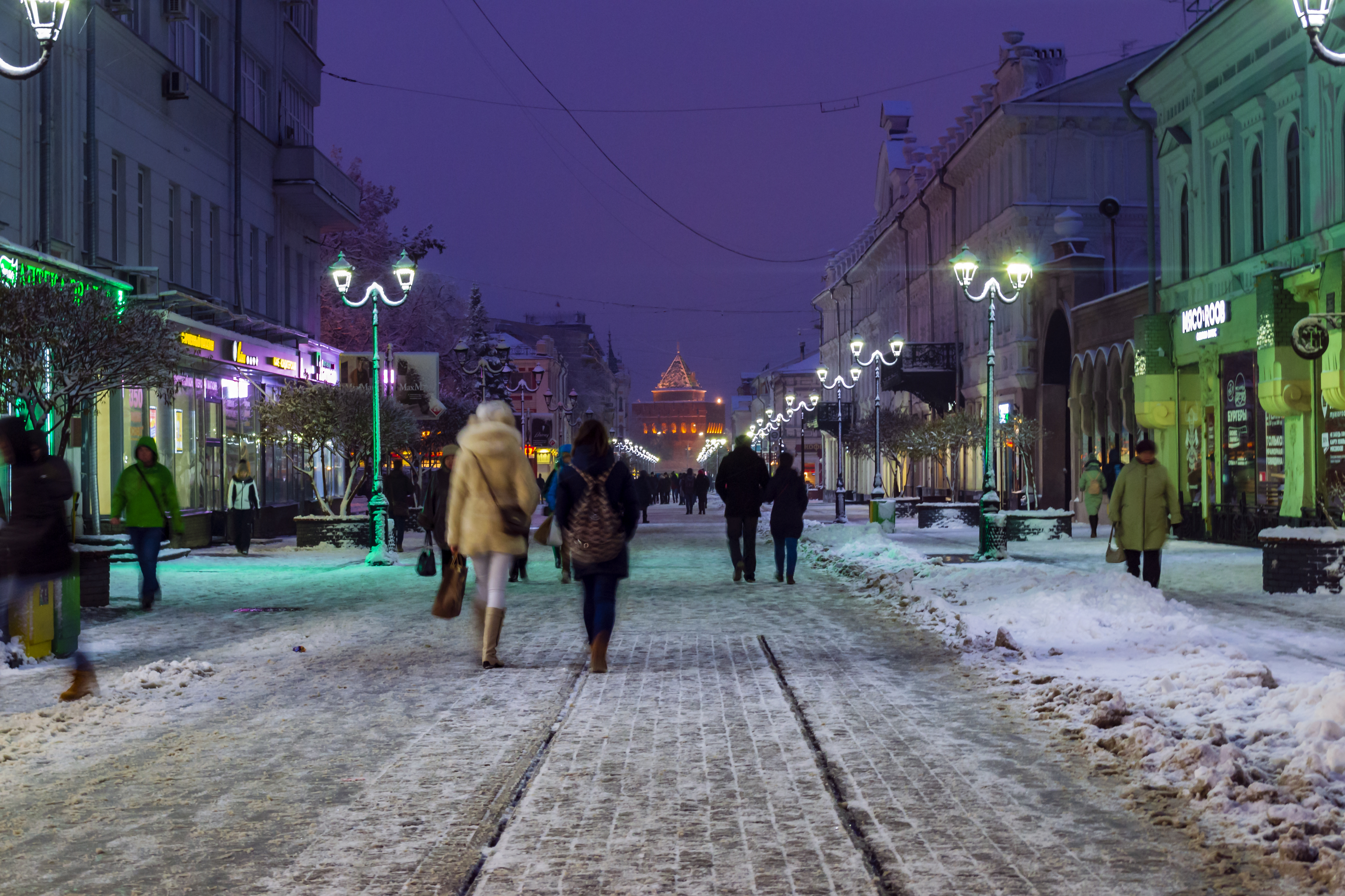 Bolshaya Pokrovskaya Street from Oktyabrskaya Street to the Kremlin at night. Nizhny Novgorod, Russia.